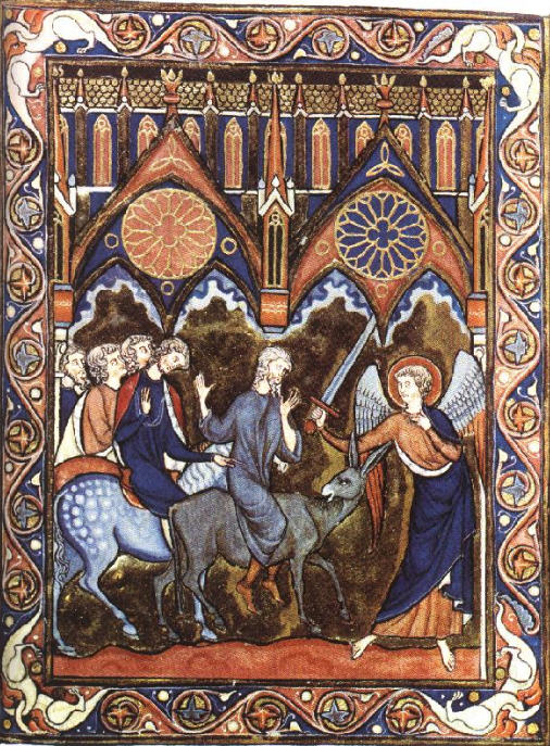 St Louis Psalter